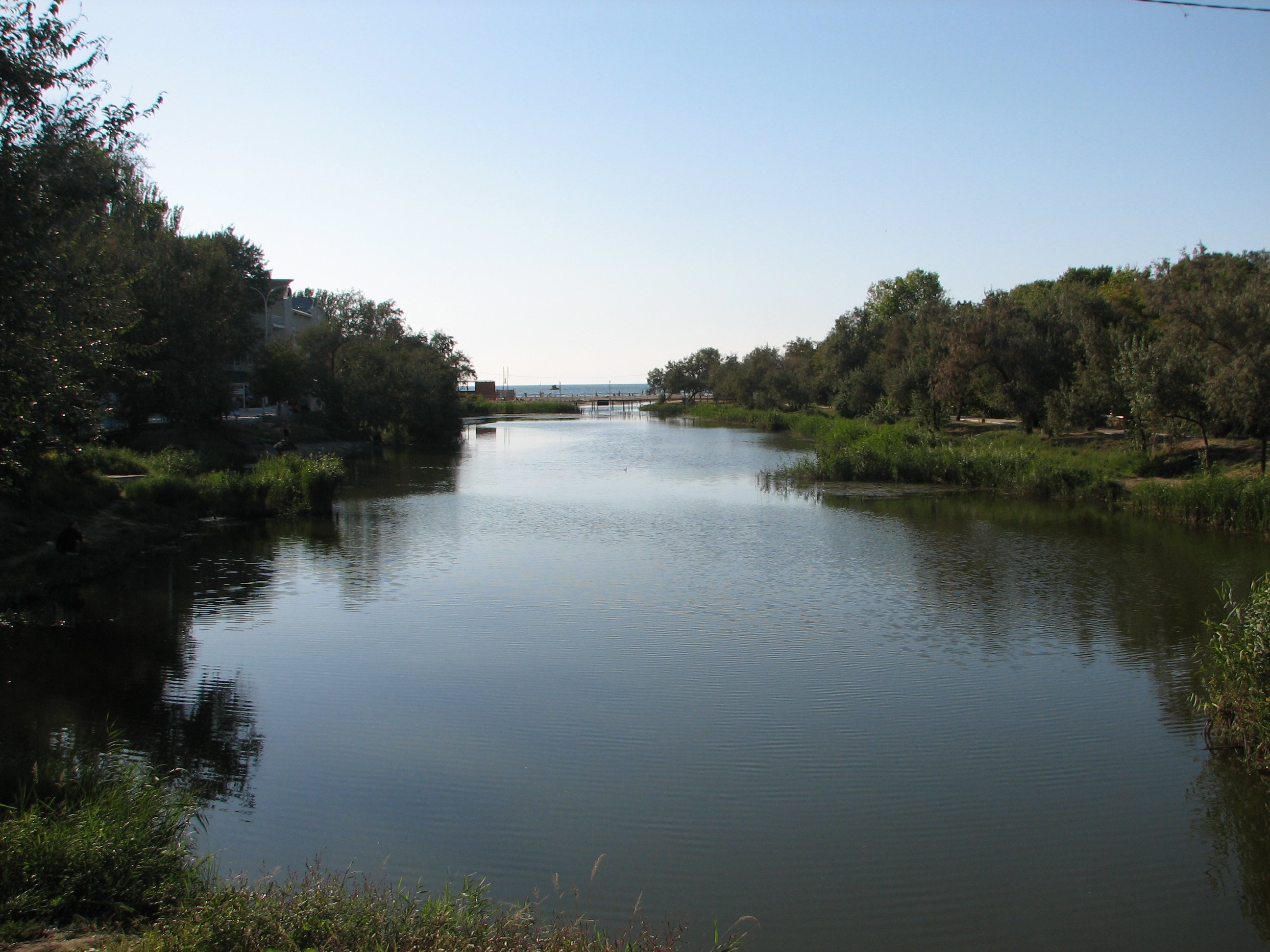 Anapa. Anapka river